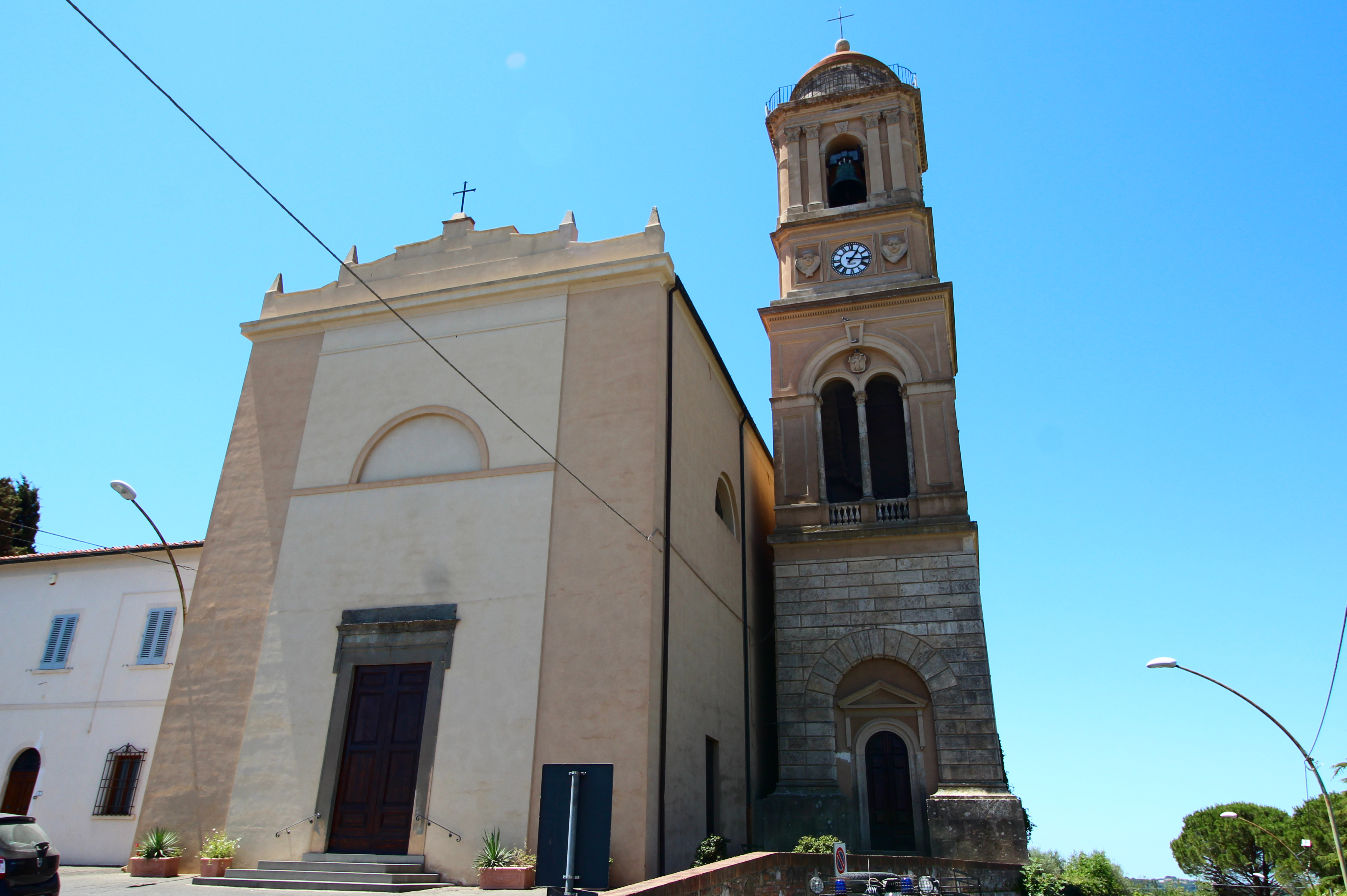 Church Sant'Andrea, Soiana, hamlet of Terricciola, Province of Pisa, Tuscany, Italy